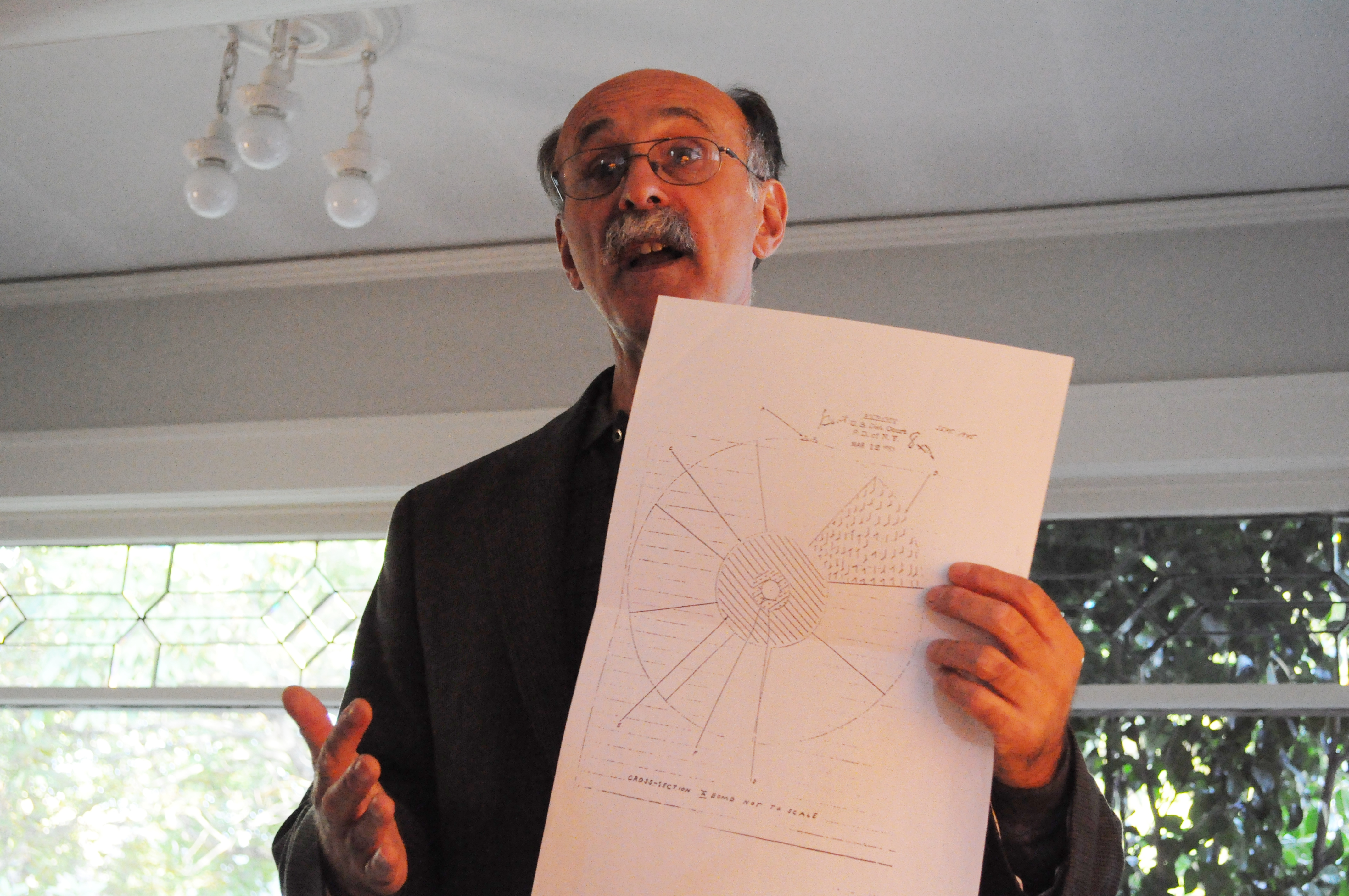 Robert Meeropol speaking in Seattle, Washington at a fundraiser of the Rosenberg Fund for Children. He is holding a copy of Government Exhibit 8 from the Rosenberg trial, the cross-sectional drawing of an atomic bomb, which was said to be the "secret of the atomic bomb" they had passed to the Soviet Union.